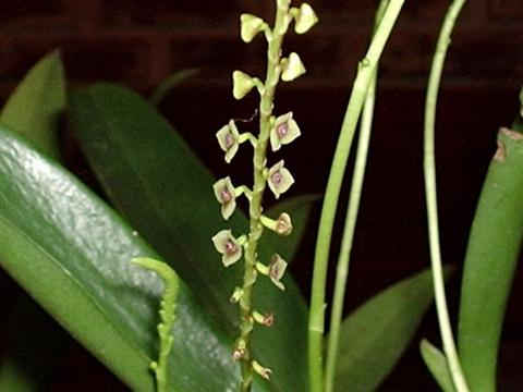 A work released per the GNU Free Documentation License by: Martín Javier Battiti de Tegucigalpa, Honduras